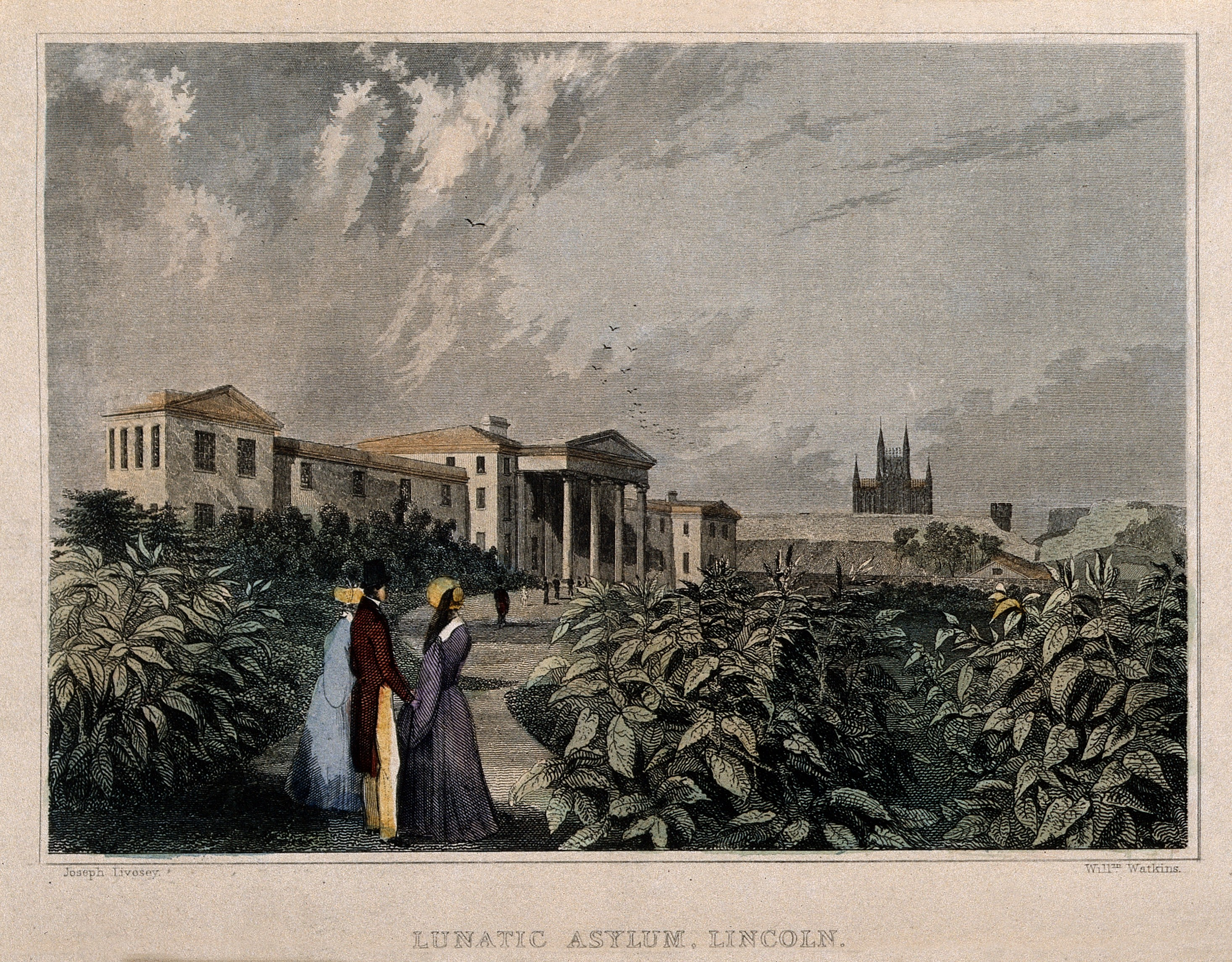 Lunatic Asylum, Lincoln. Coloured line engraving by W. Watkins, 1835, after J. Livesey. Iconographic Collections Keywords: William Watkins; j livesey; w watkins; Richard Ingleman; Psychiatry; ic; ASYLUM; Joseph Livesey; lunatics